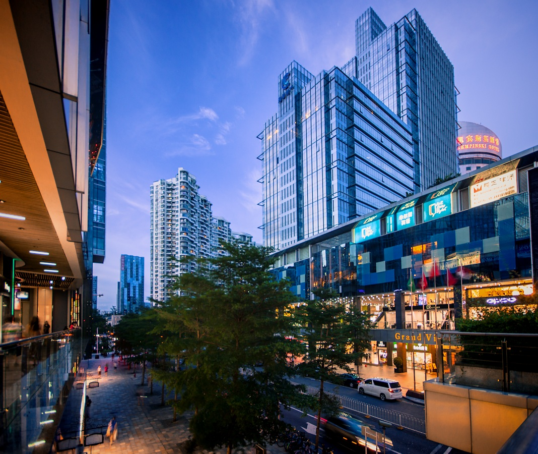 Nanshan District, Shenzhen, China